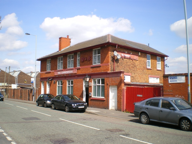 The Summerhouse pub An M&B pub on Steelhouse Lane in Monmore Green